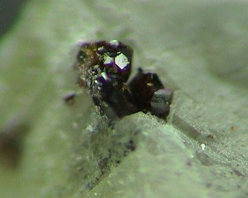 Menezesite